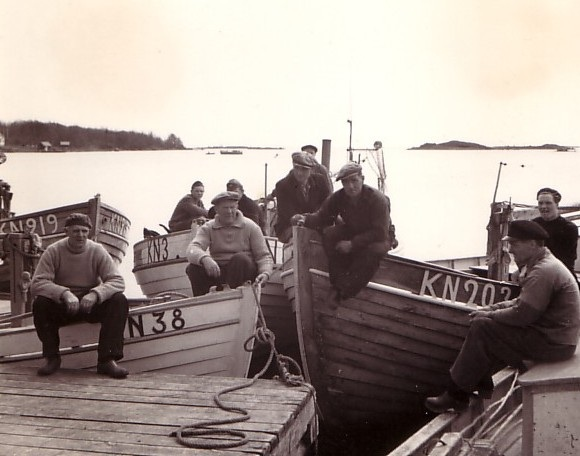 Fishermen in swedish fishing village "Gyön", Photo taken 1954.